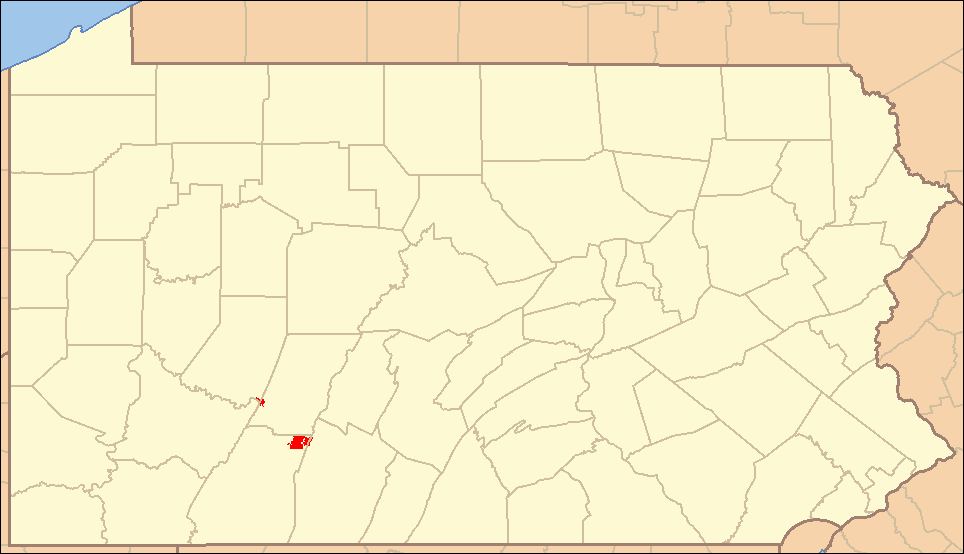 Locator Map of Gallitzin State Forest, Pennsylvania, United States